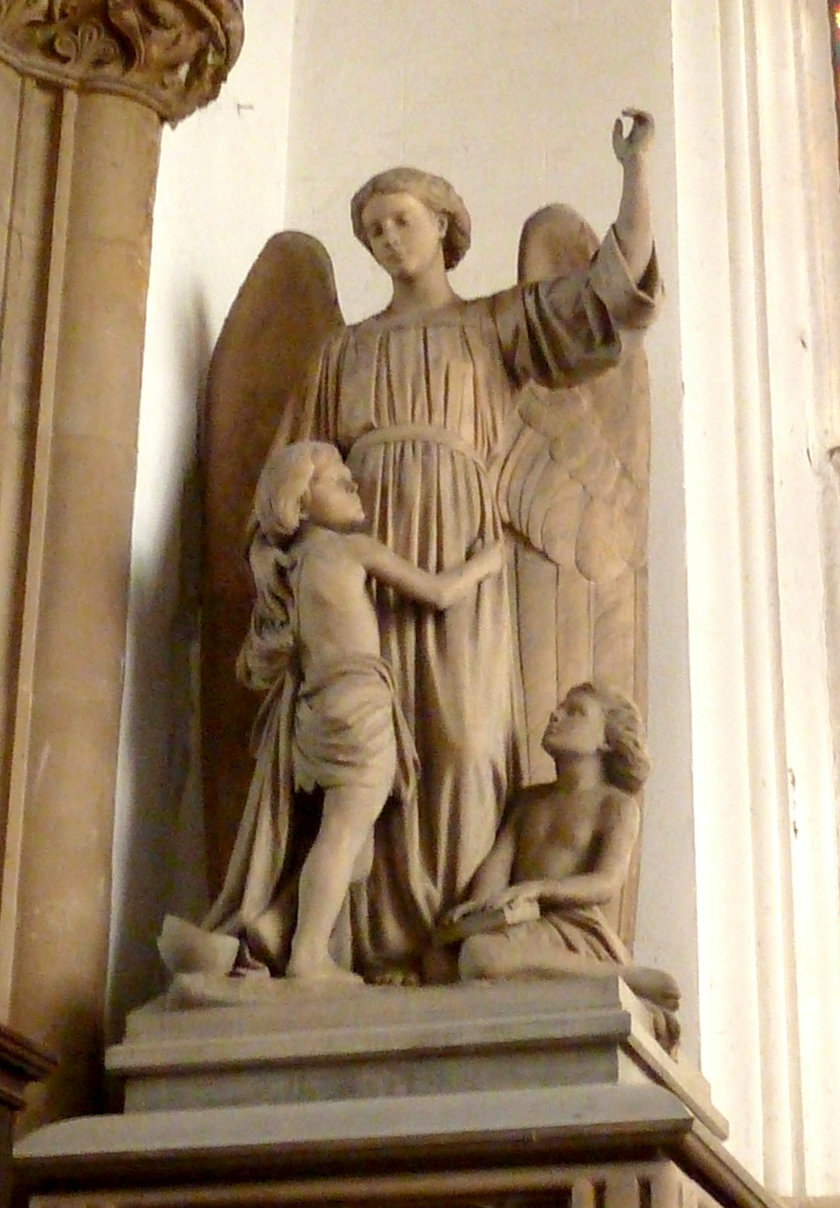 Leeds Minster, formerly St Peter's, Leeds parish church, Leeds, West Yorkshire, England. Designed by Robert Dennis Chantrell, consecrated 1841. General stone carving (excluding fonts) was executed by Robert Mawer, who returned in 1849 to carve the Beckett memorial to the design of John Dobson. Showing Beckett memorial.